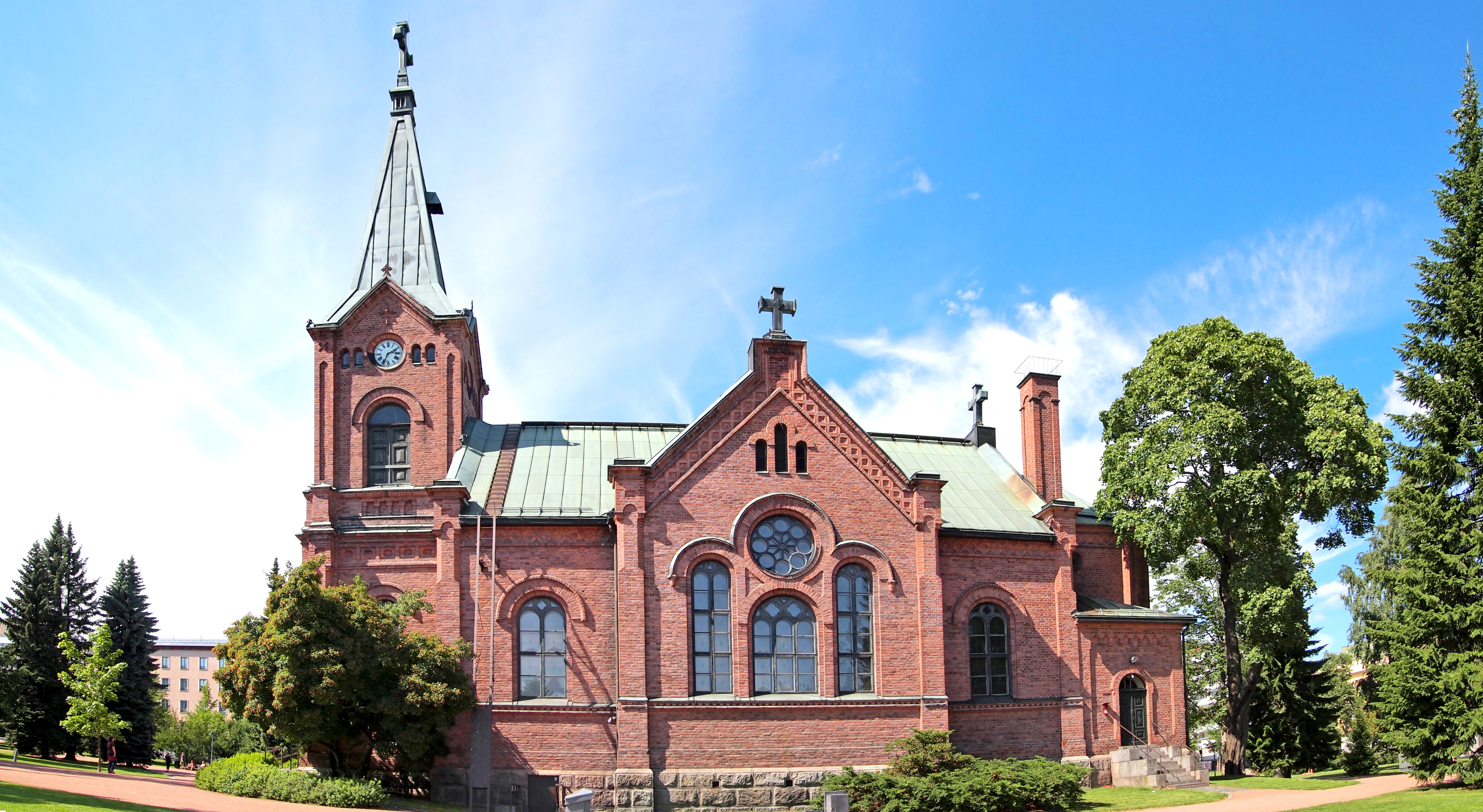 City church of Jyväskylä. This photograph was taken with an Olympus E-PL1